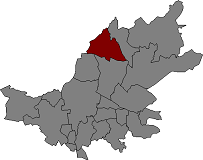 Location of Cabra del Camp in Alt Camp